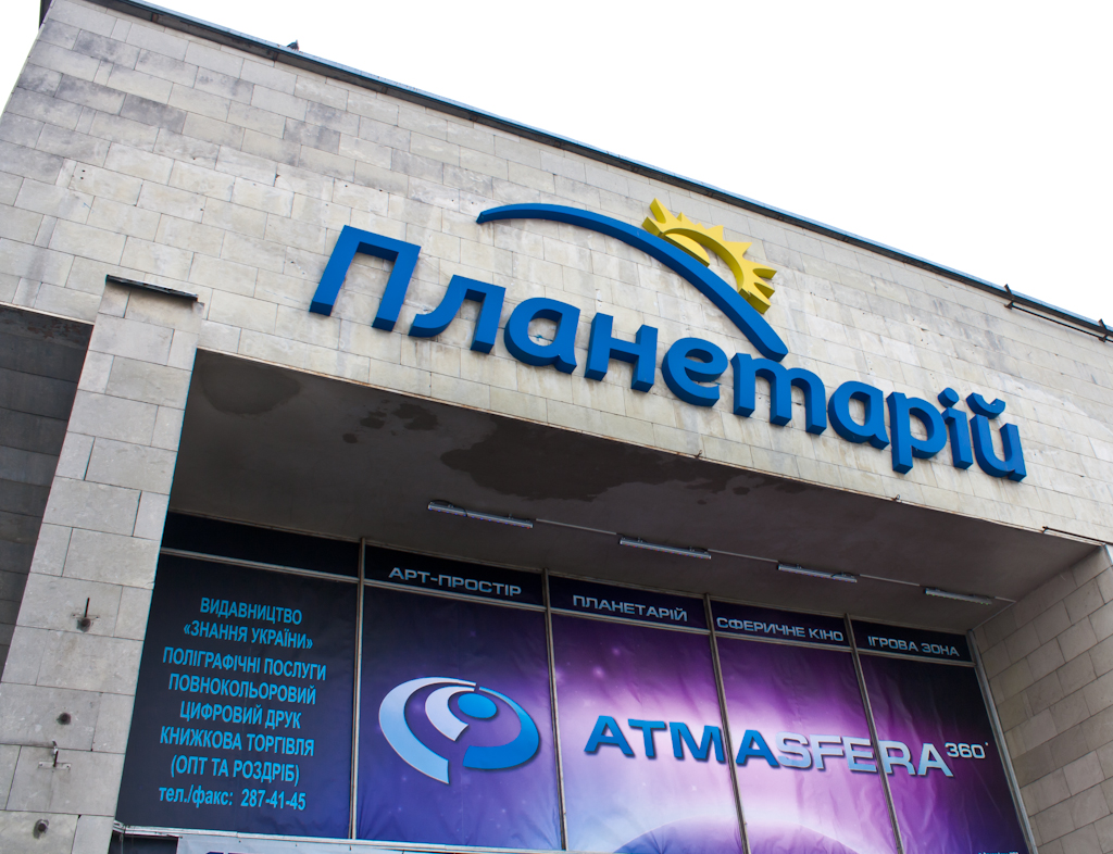 Kiev Planetarium in January 2012